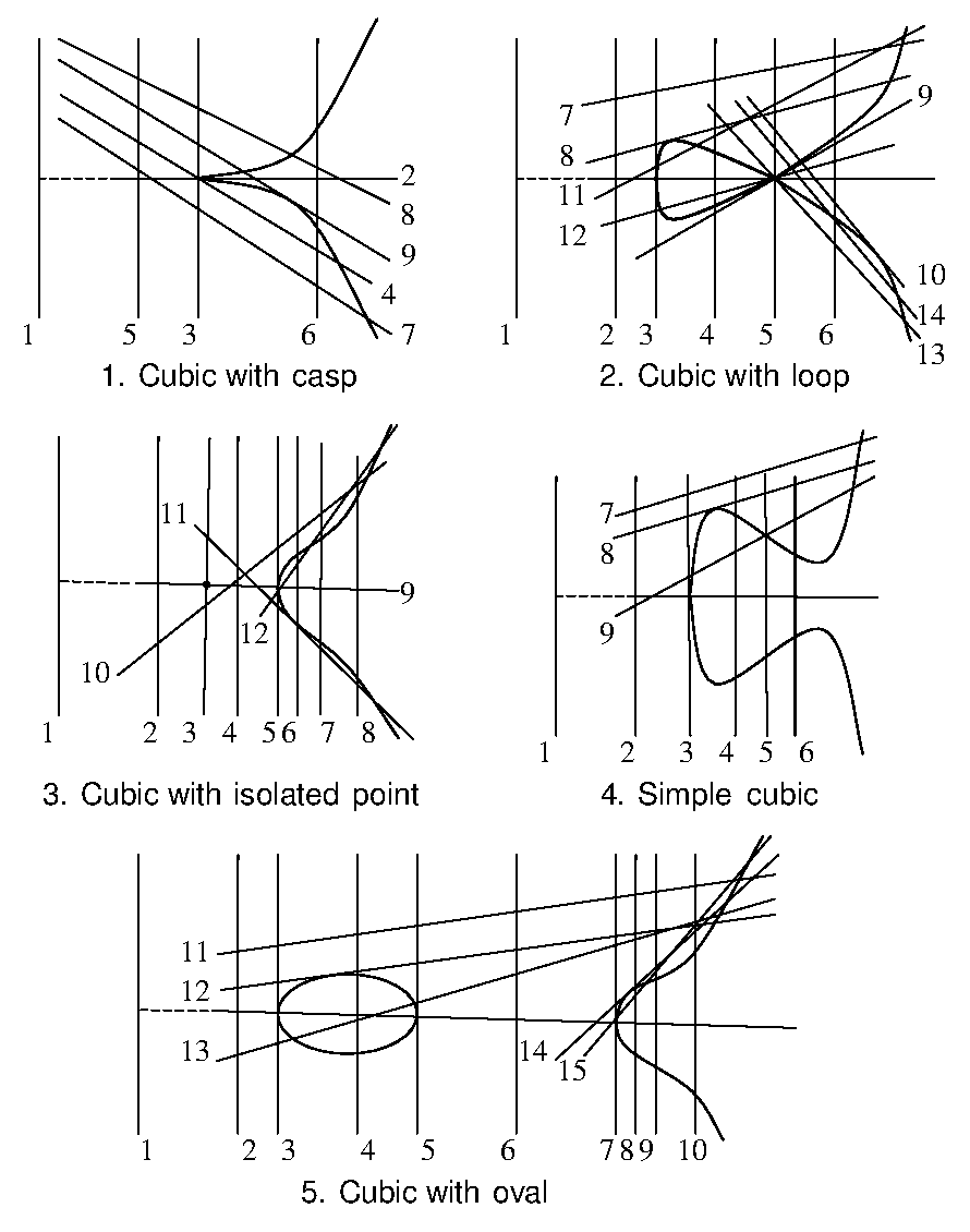 Five standard cubic curves are shown together with the lines which were selected by Newton.